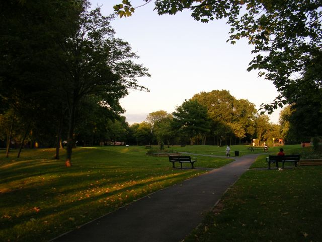 Swinton Grove Park. A pleasant park in Chorlton-upon-Medlock. Swinton Grove Park has an historic point of interest as the writer Elizabeth Gaskell's house was located here. SJ854962.